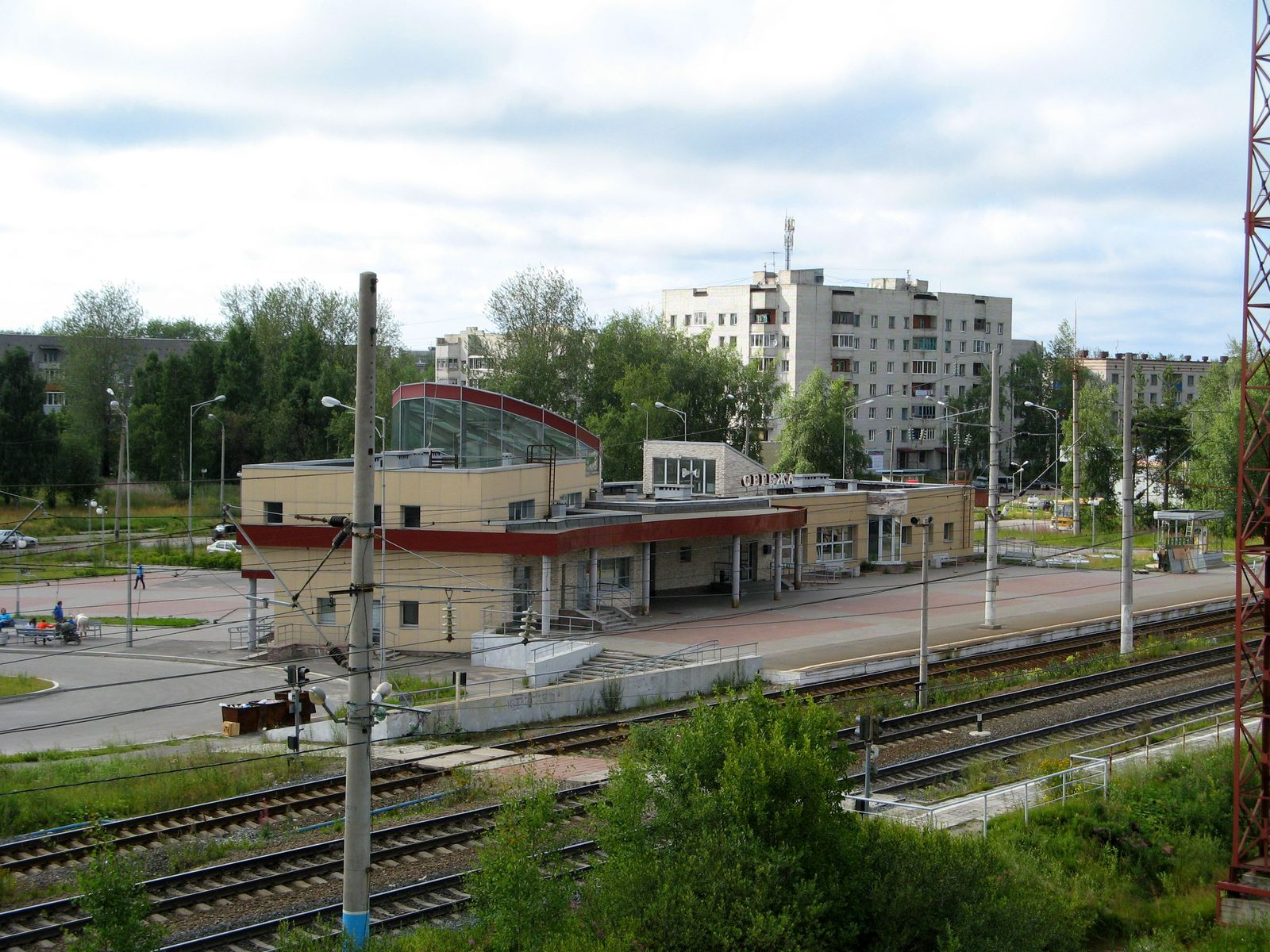 Segezha railway station